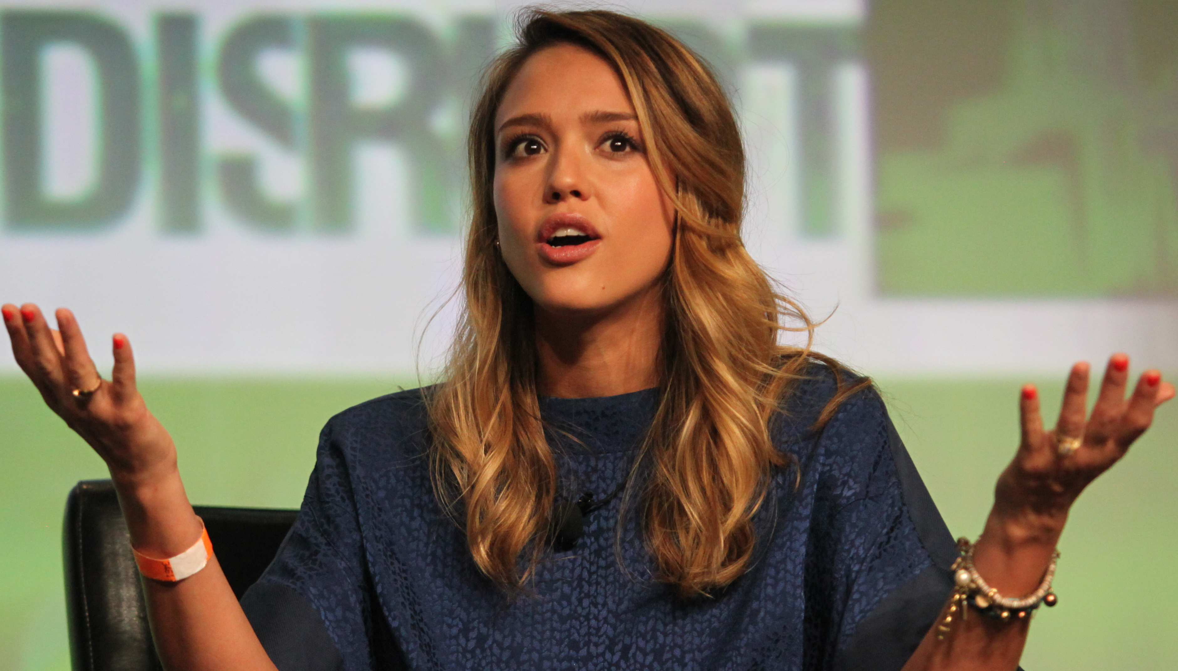 Jessica Alba at TechCrunch Disrupt San Francisco 2012.